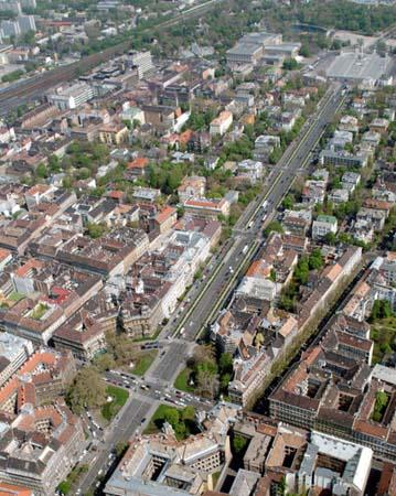 Andrássy Avenue, Hungary, aerial photography